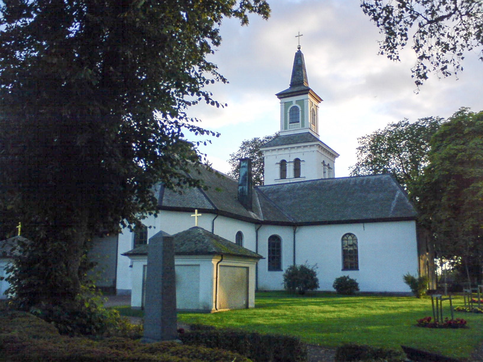 Parish church of Grava parish from the south east Grava församlingskyrka från sydost